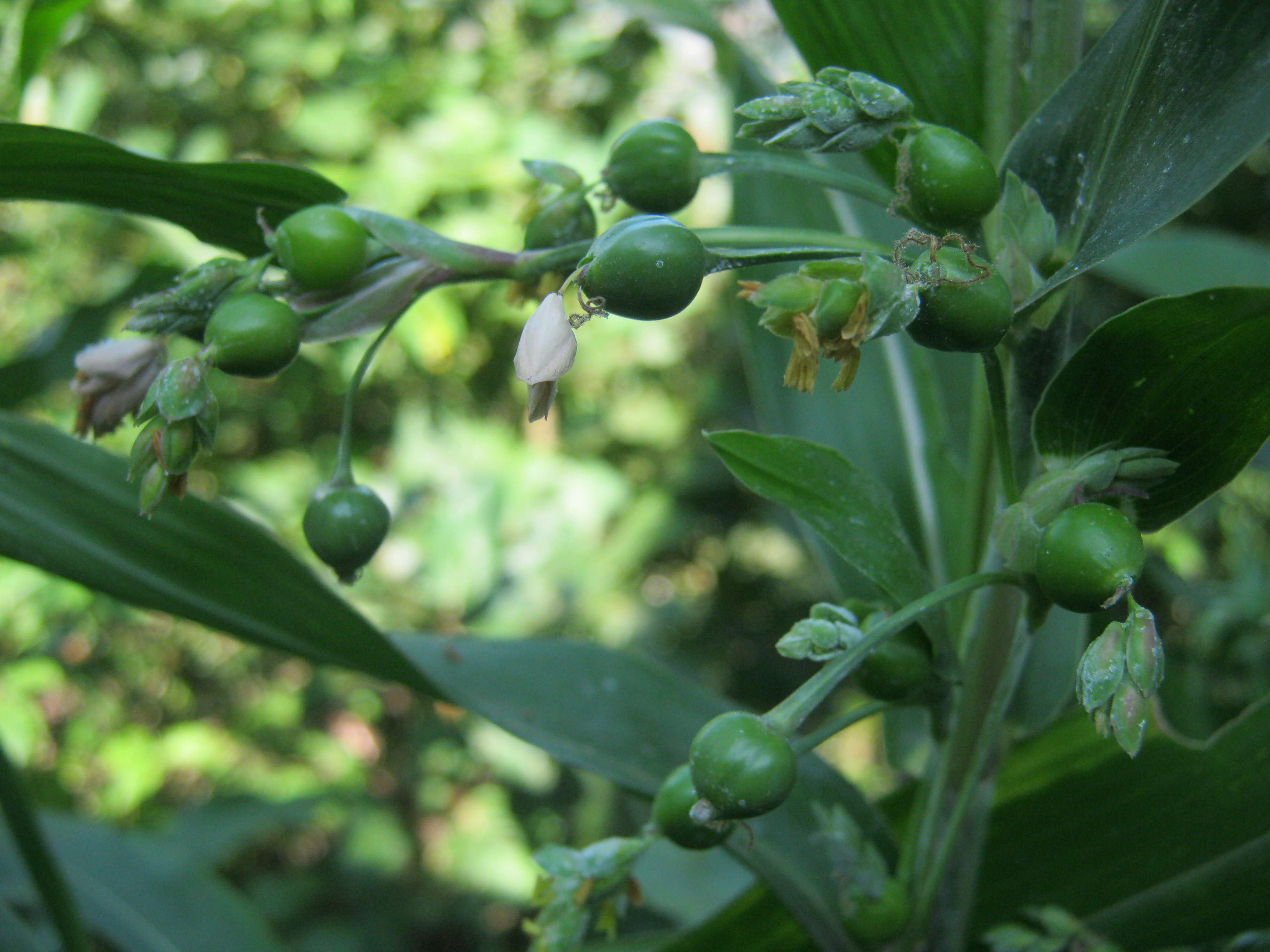 A monocot plant of Nepal. Its seed used as beads.